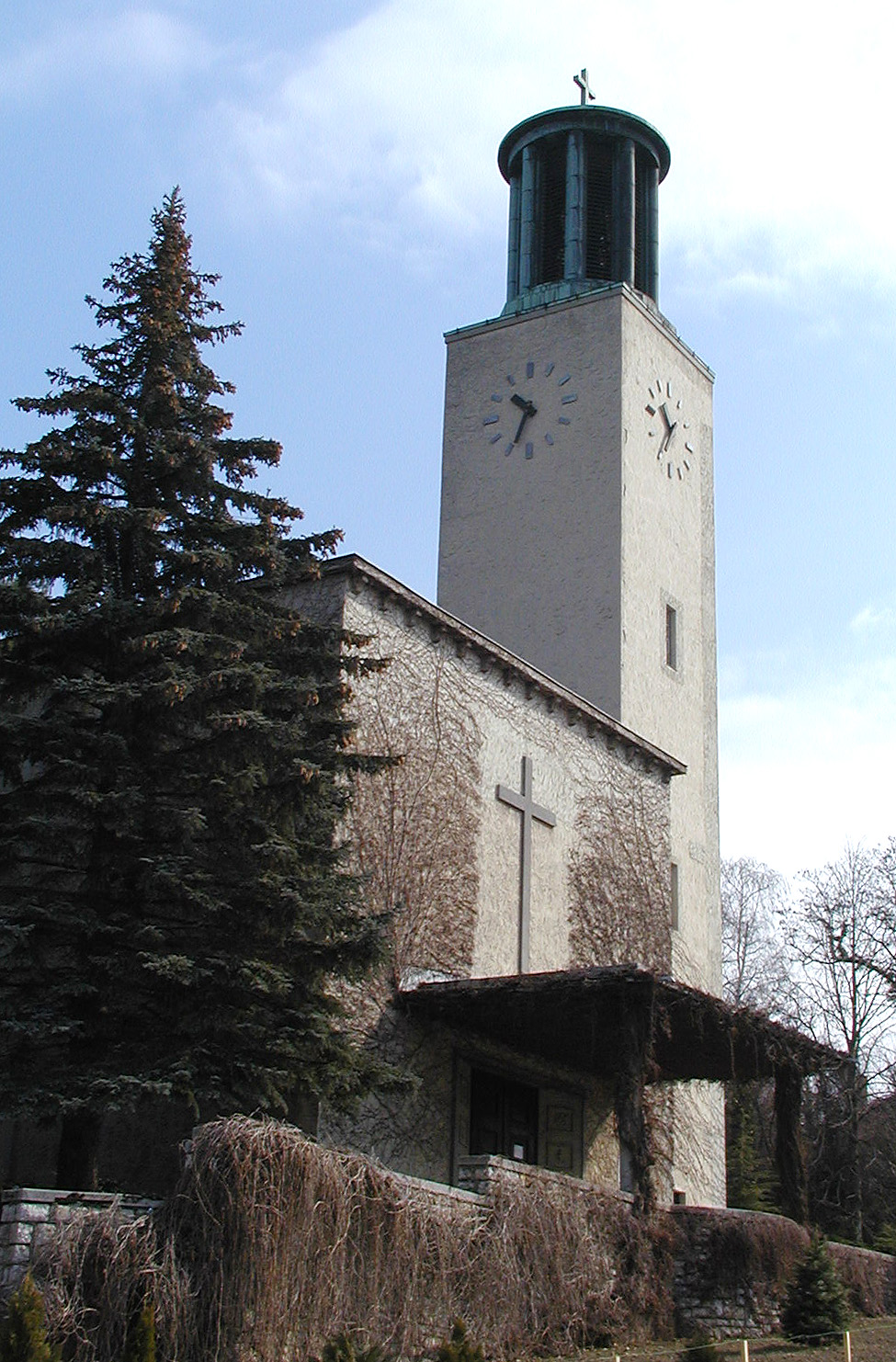 Balatonboglár, Roman Catholic Parish Church of the Holy Cross.